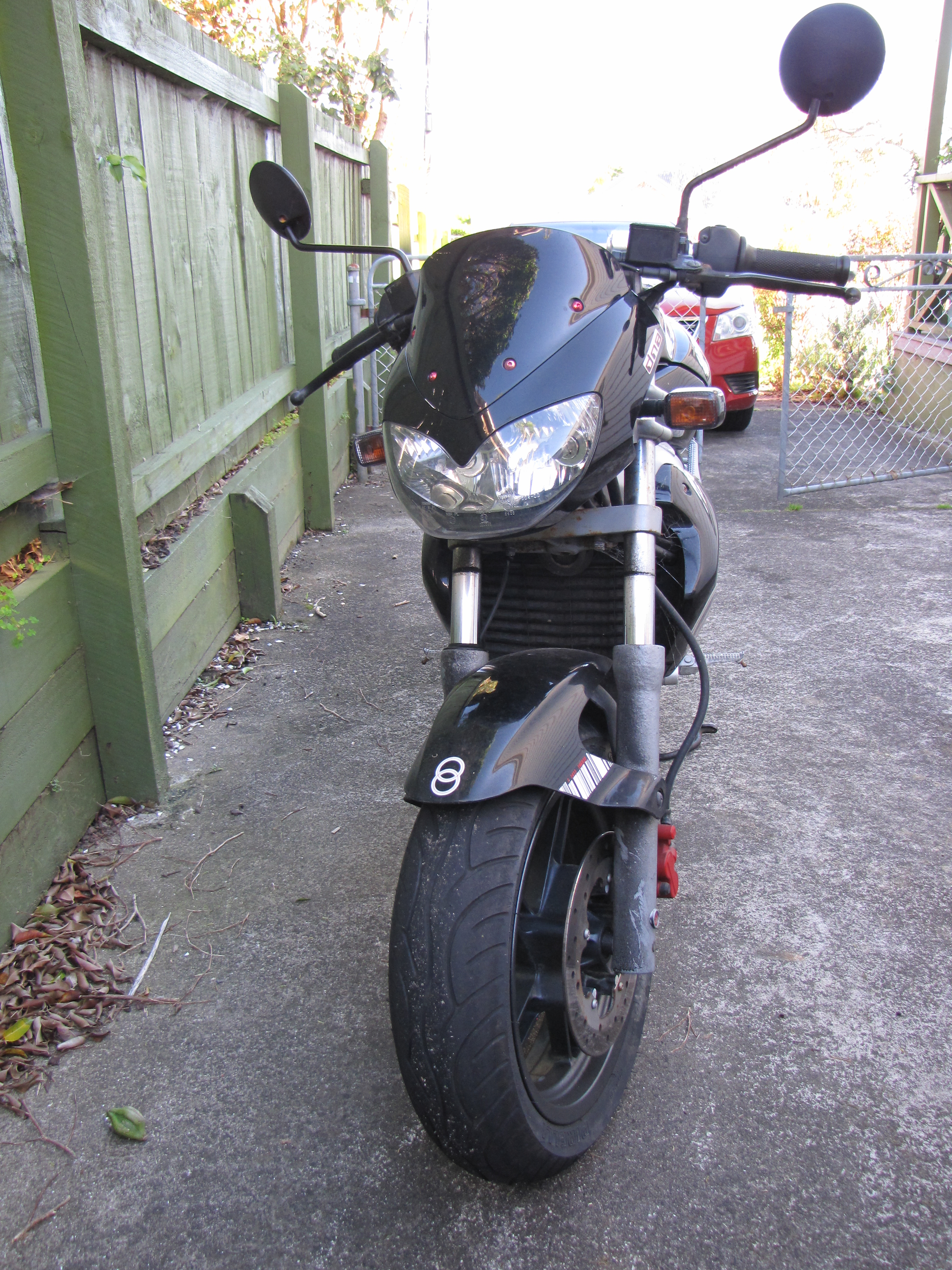 2002 Gilera DNA 180 cc motor scooter